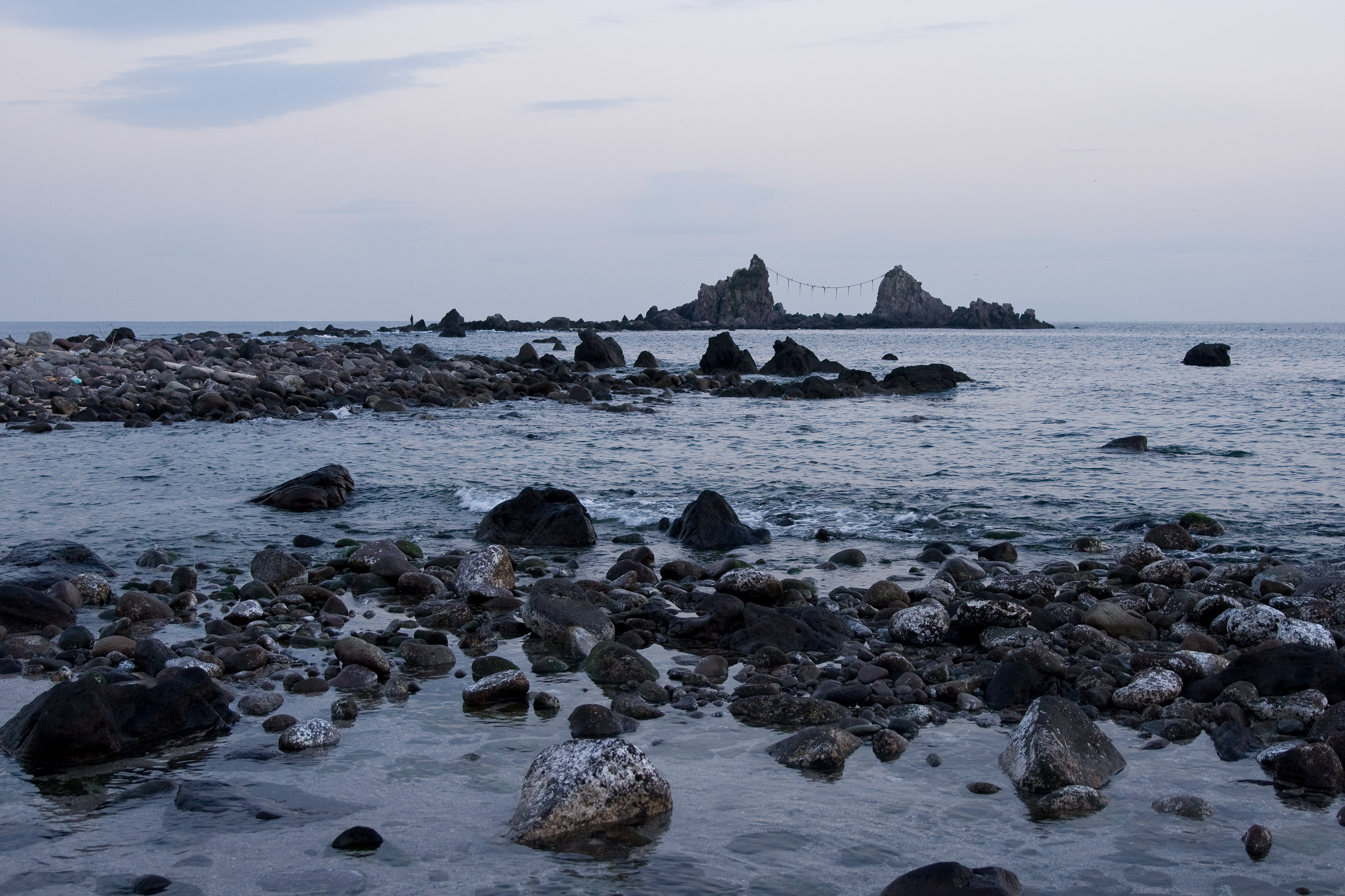 Cape Manazuru, Kanagawa Pref., Japan.